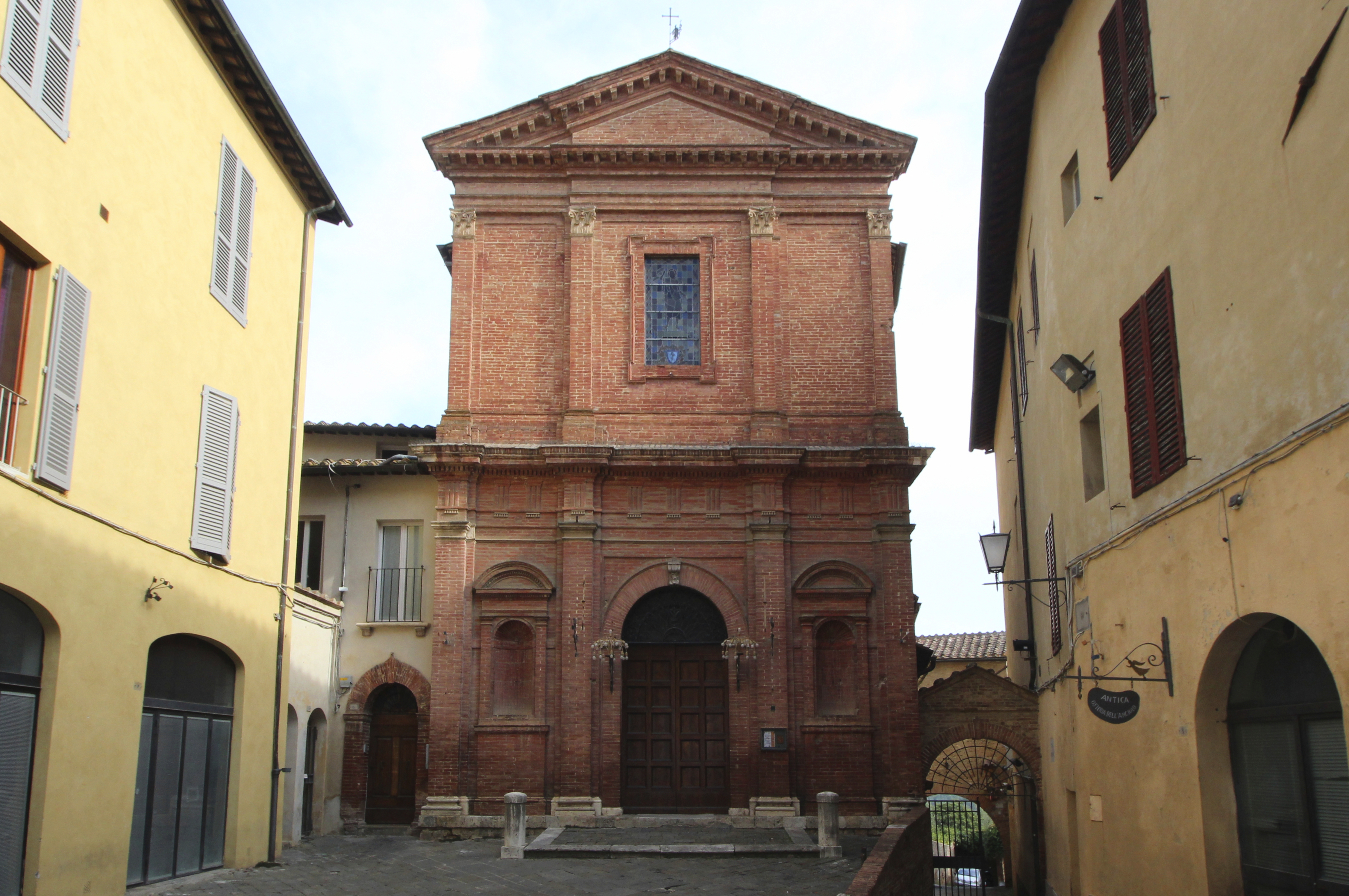 San Giovannino della Staffa, contrada church of Leocorno, Siena, Tuscany, Italy